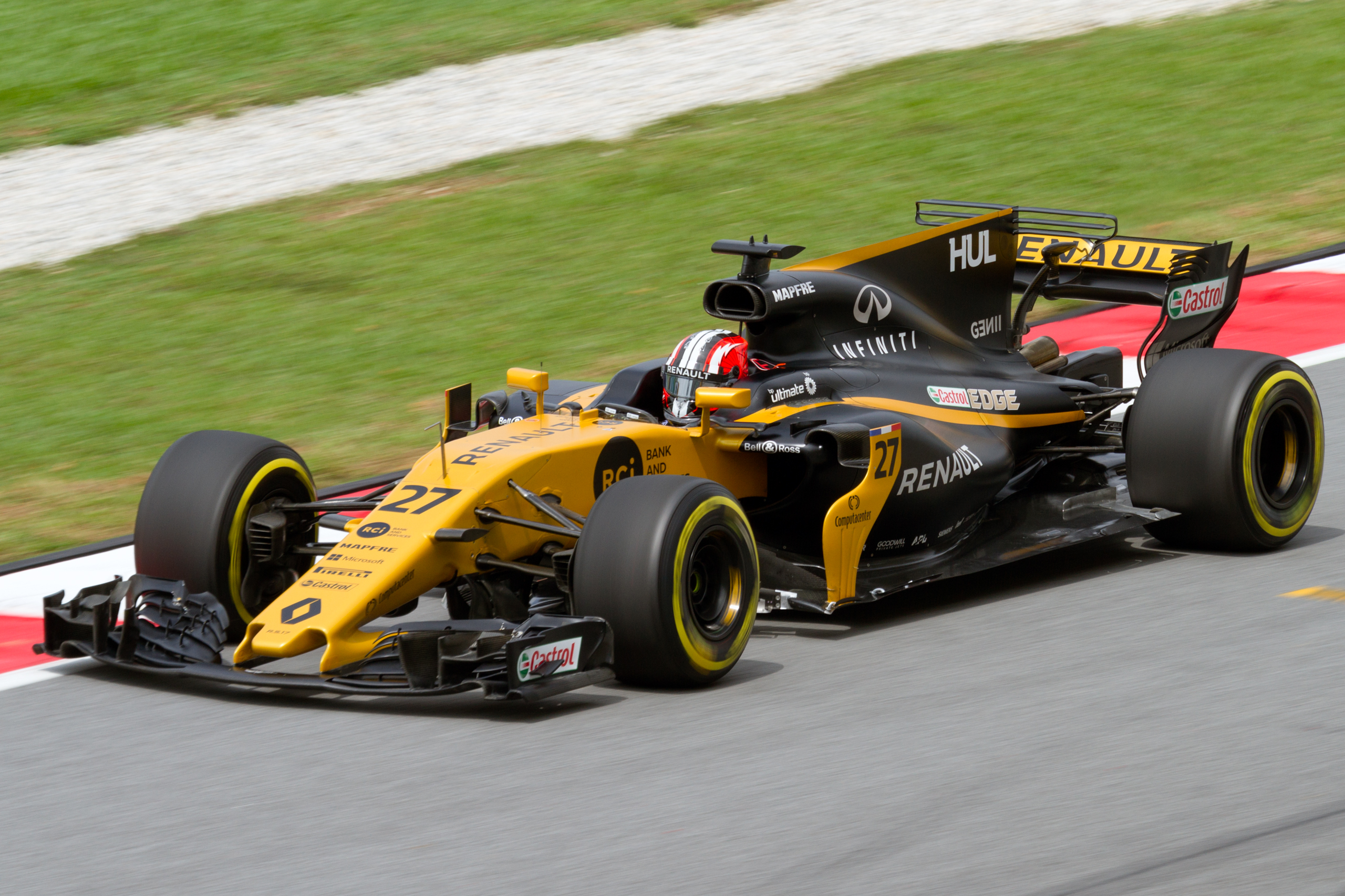 Formula One 2017 Rd.15 Malaysian GP: Nico Hülkenberg (Renault)